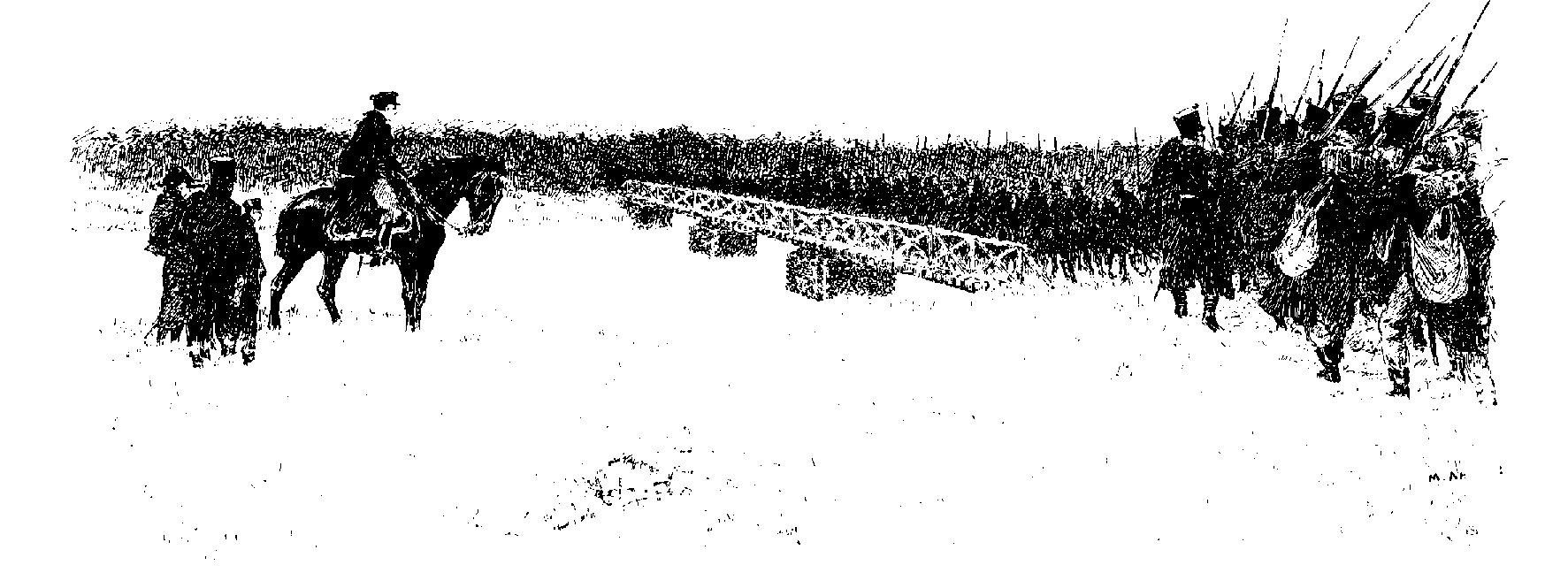 The Russian troops crossing the border of Sweden at Ahvenkoski (Abborfors) in 1808